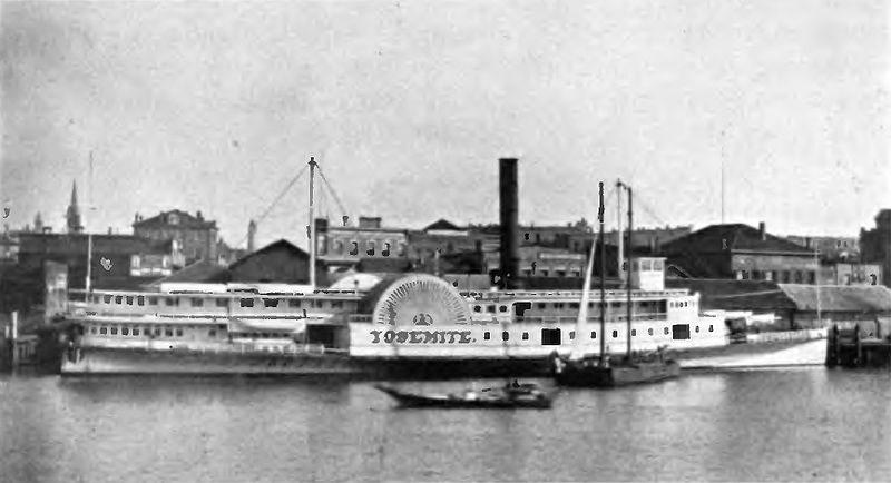 Yosemite, sidewheeler, probably while in Canadian service